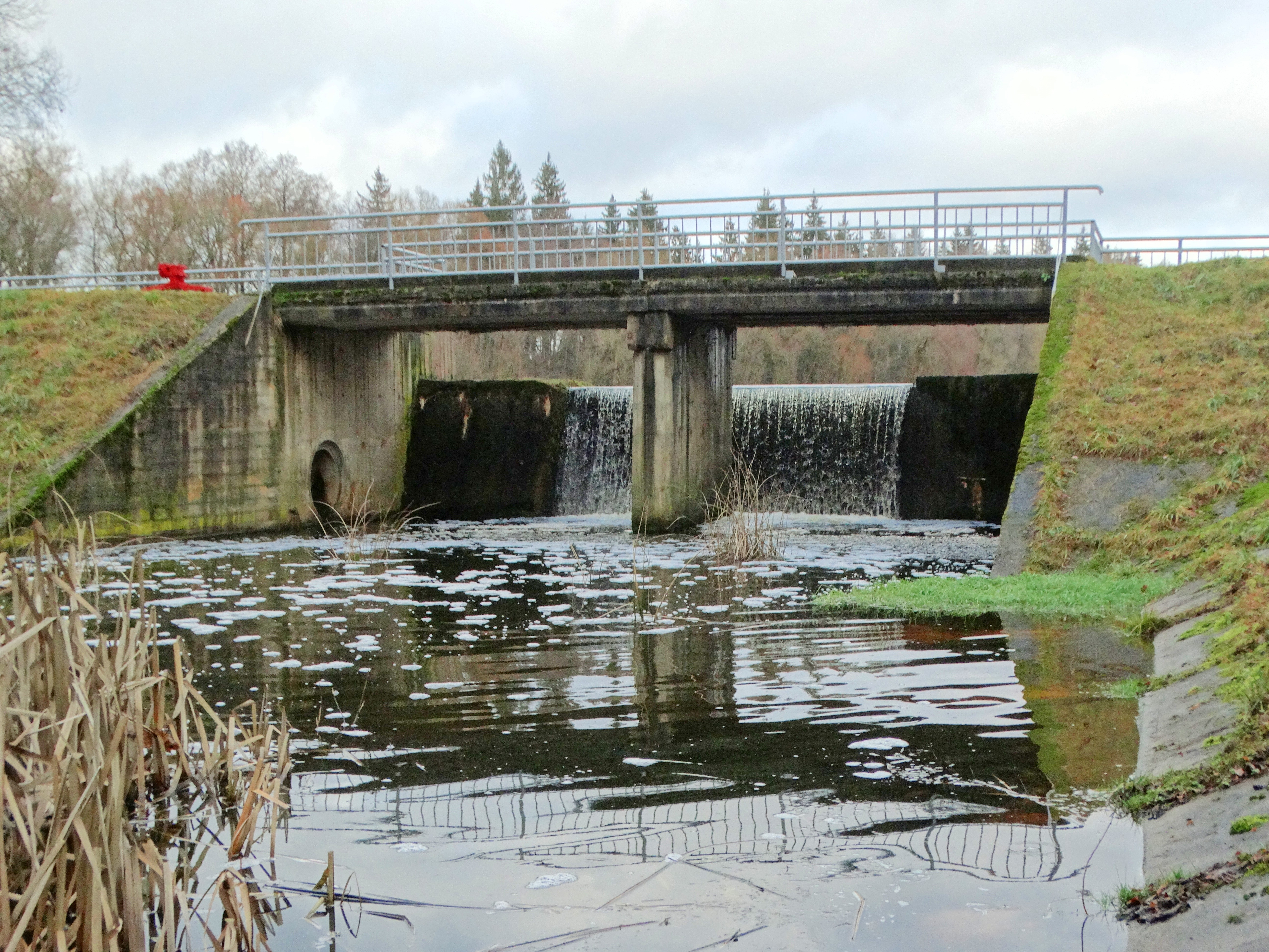 Markutiškiai, Lokys river dam, Jonava District, Lithuania